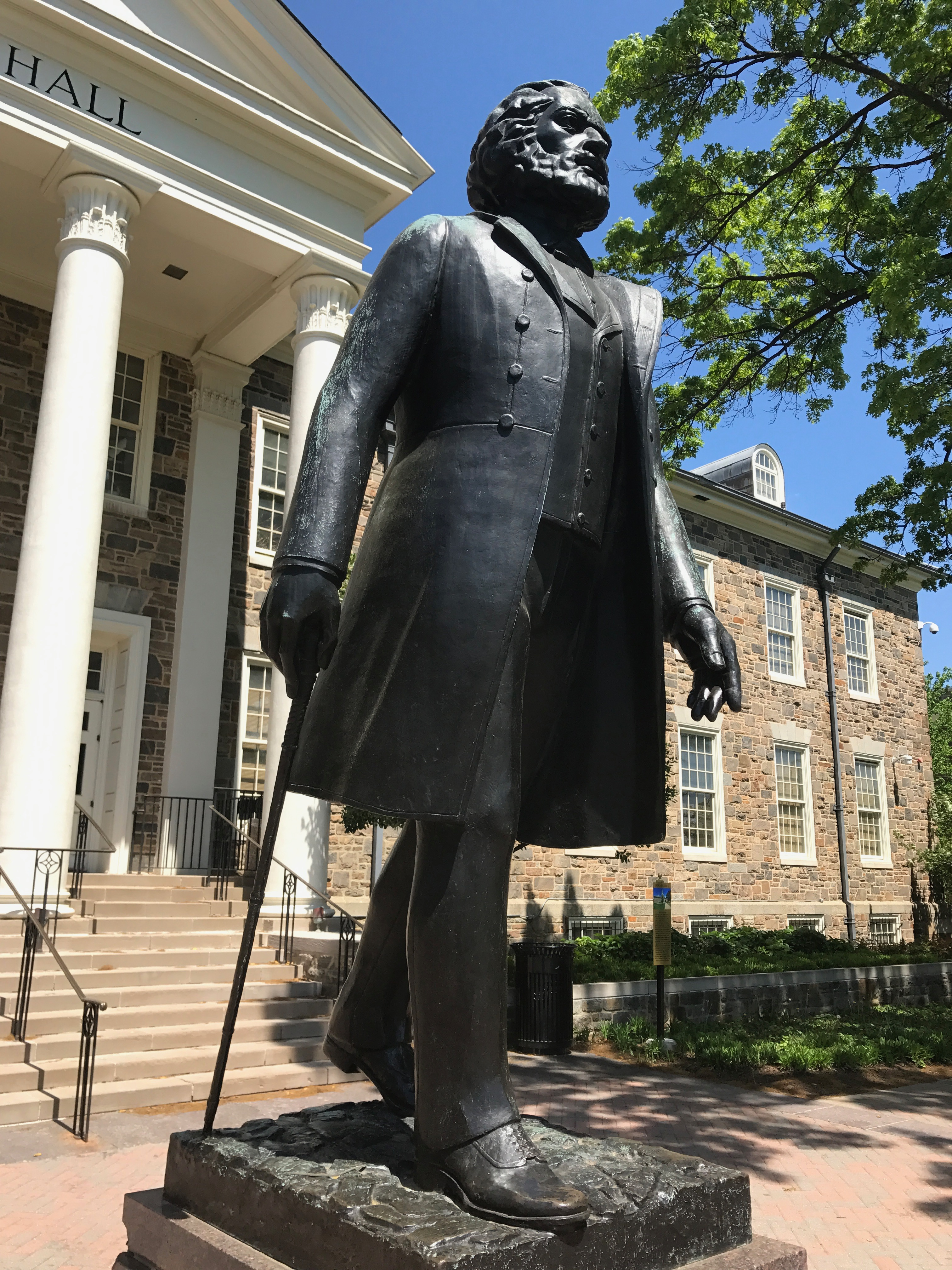 Photograph by Eli Pousson, 2017 April 28.